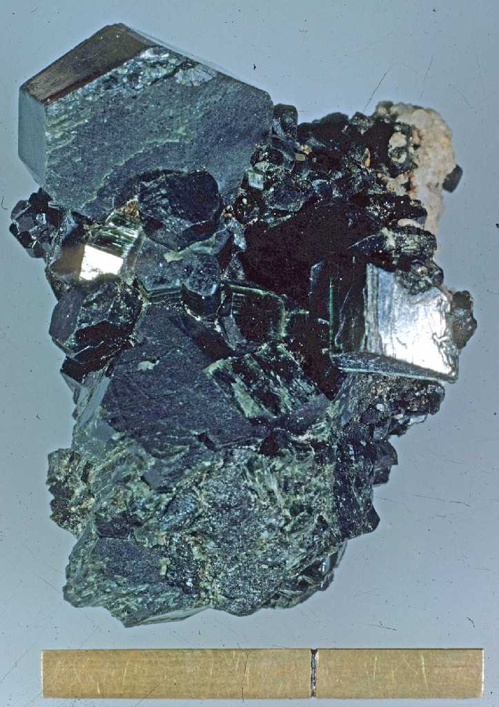 Augite Locality: Diana, Diana Township, Lewis County, New York, USA Augite crystals on matrix. Specimen is from the Collection of Neal Yedlan 1972 Scale at bottom of image is one inch with a rule at one cm.